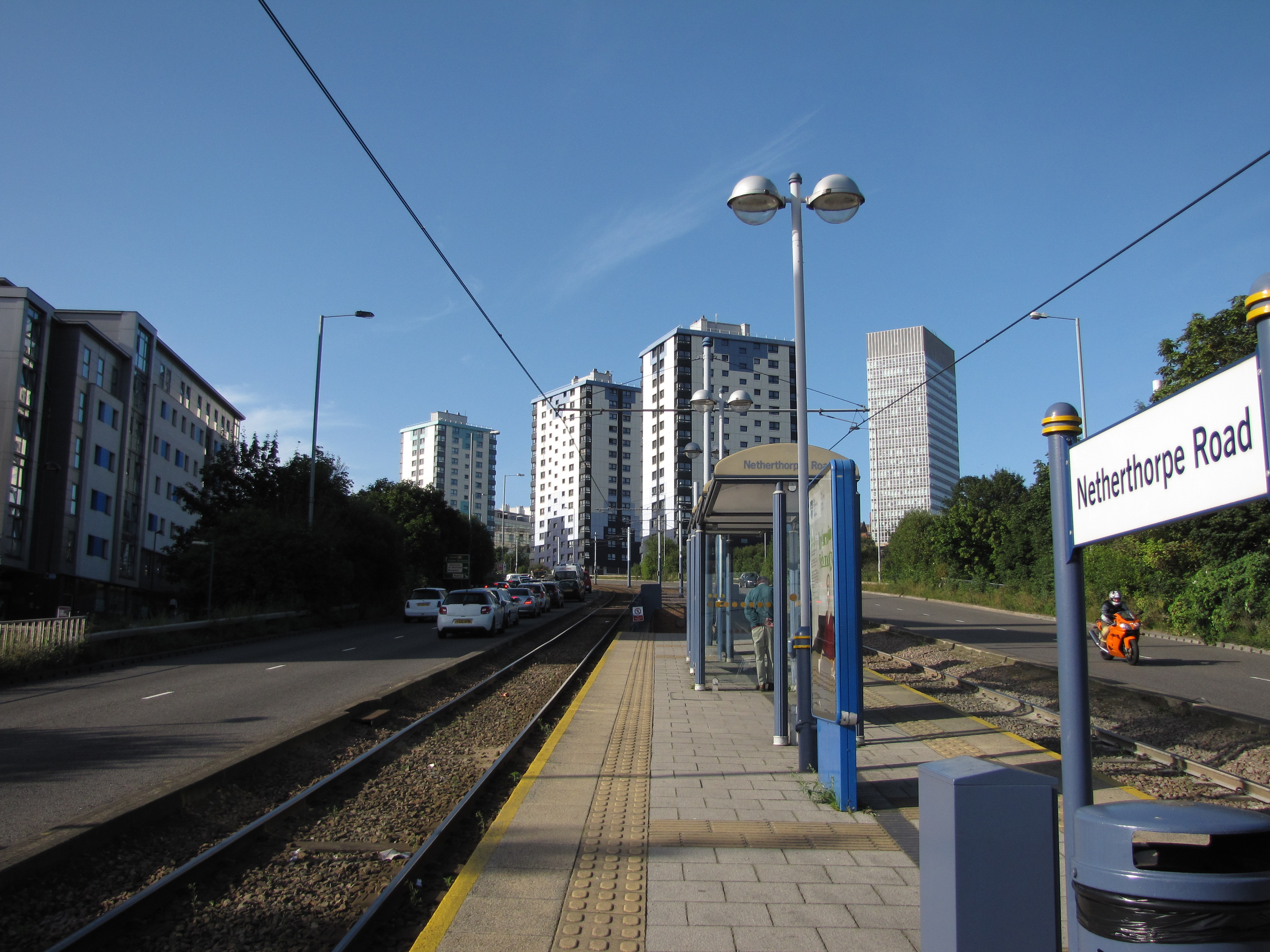 Netherthorpe tower blocks seen from the Netherthorpe Road tram stop in Sheffield, England.